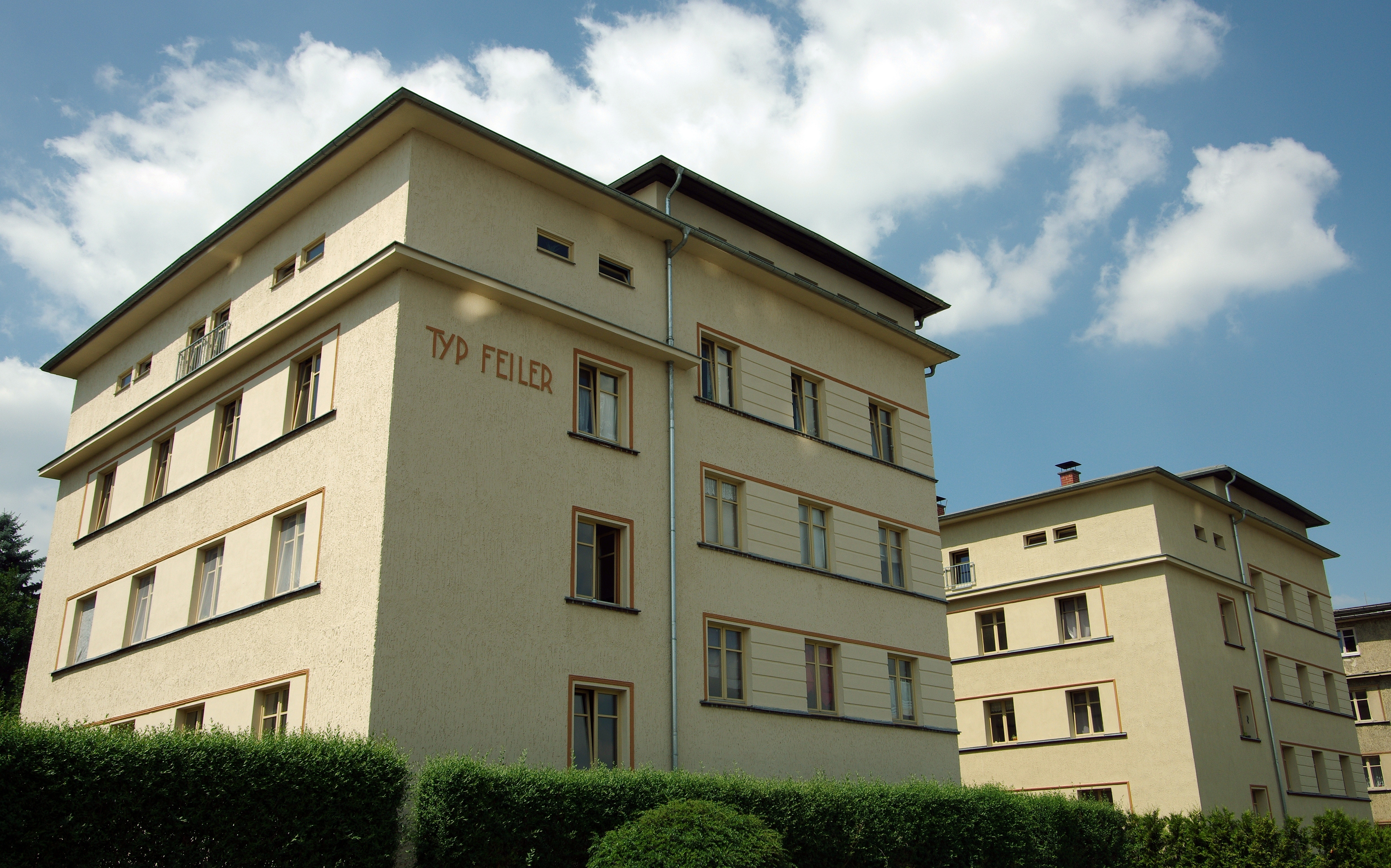 View onto a complex of four housing towers of "Type Feiler", erected in 1930-1932 by the Reichenbach architect Curt Feiler (1875-1932) as a social housing complex in Mylau/Vogtland